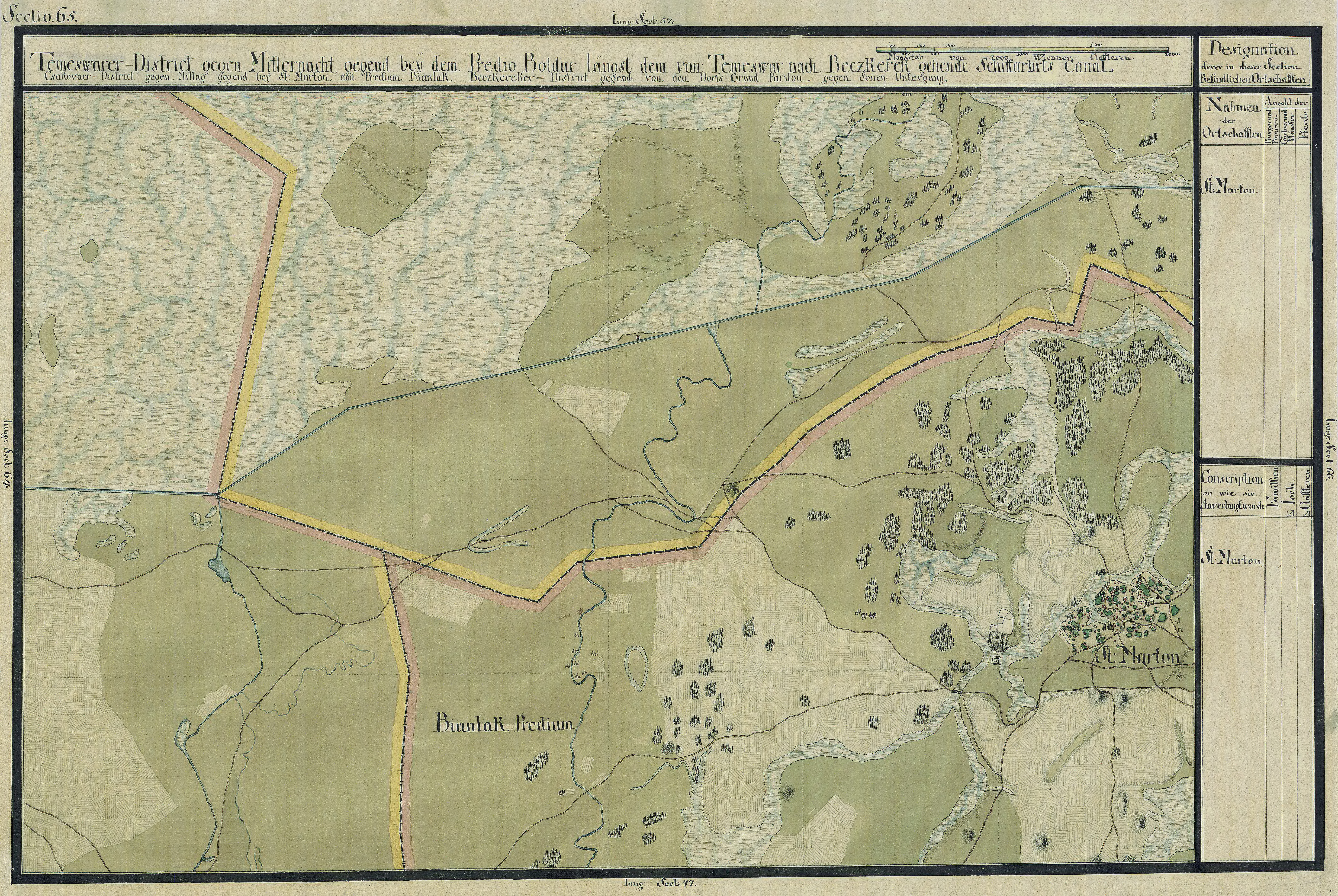 The Banat region in the cadastral maps: Josephinische Landesaufnahme, 1769-72. Josephinische Landaufnahme pg065